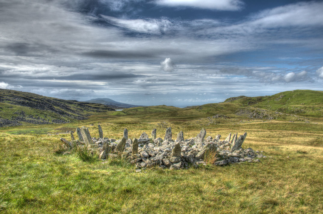 Bryn Cader Faner Stone Circle, high in the hills above Talsarnau, Gwynedd, UK